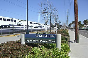 Metrolink train at Laguna Niguel/Mission Viejo station in March 2008